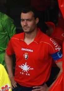 César Cruchaga as a captain of CA Osasuna